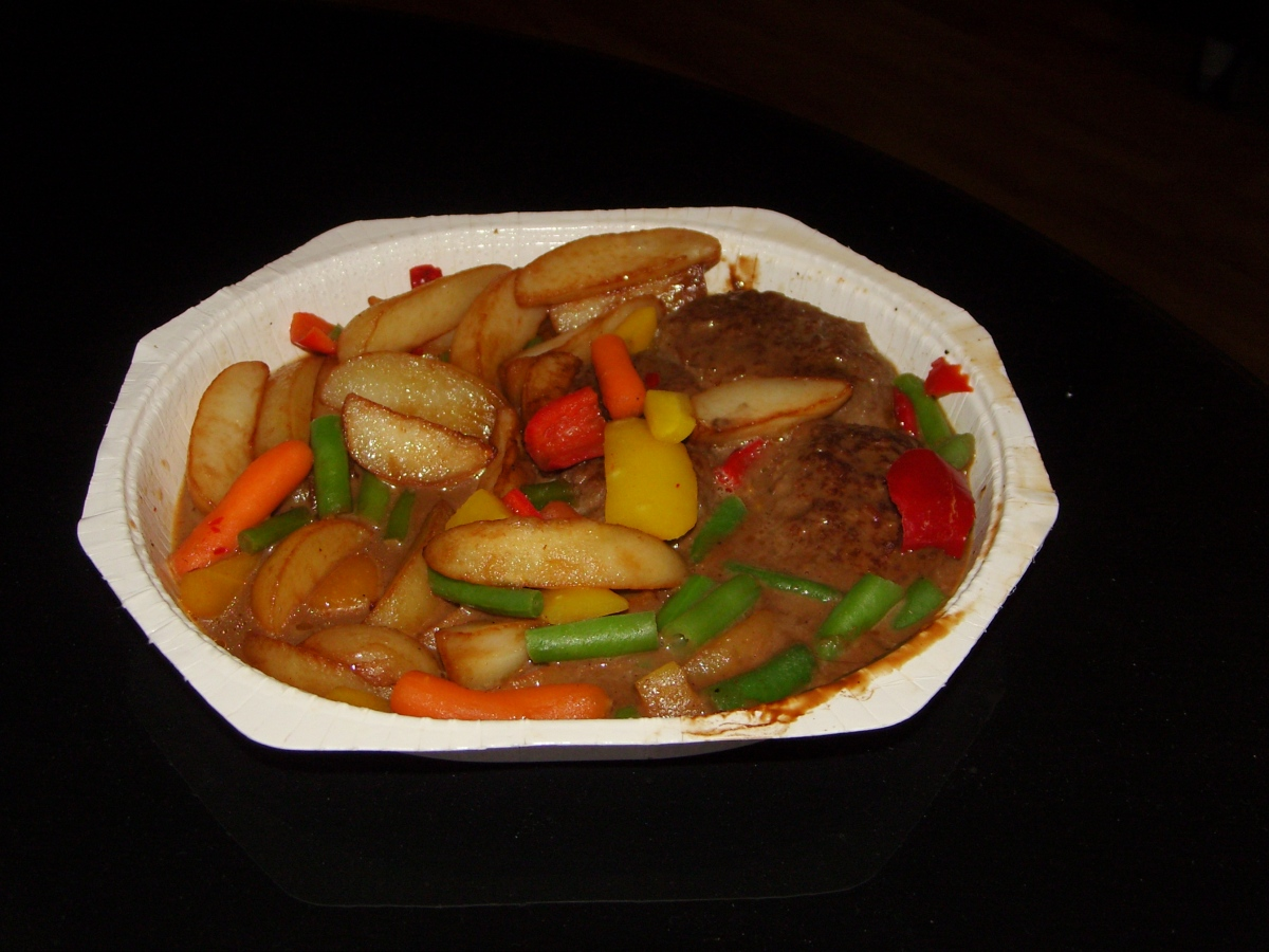 A Findus meal (TV dinner) in Sweden 2009.